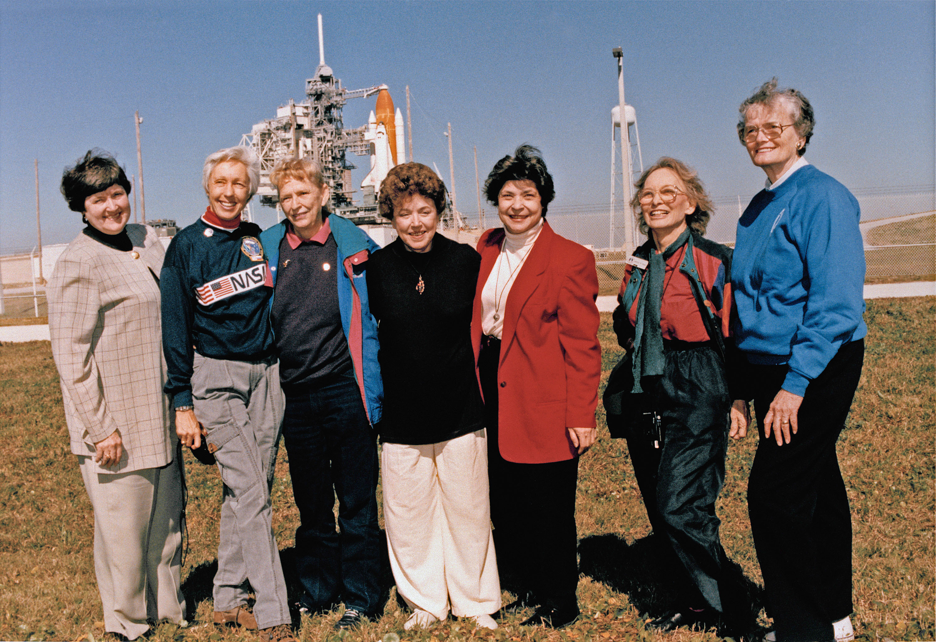 Women of Mercury 13 visiting the space center as invited guests of STS-63 Pilot Eileen Collins.(From left) Gene Nora Jessen; Wally Funk; Jerrie Cobb; Jerri Truhill; Sarah Rutley; Myrtle Cagle and Bernice Steadman.